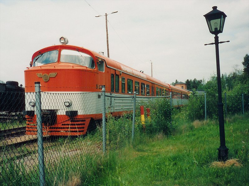 Formerly VR's Dm9 class motortrain "The Carrot" (Dm9 5123 + CEiv 5612 + Dm9 5124), nowadays being located in Haapamäki Museum Depot (Haapamäen museovarikko) with another but shorter Carrot (Dm9 5121 + Dm9 5122).